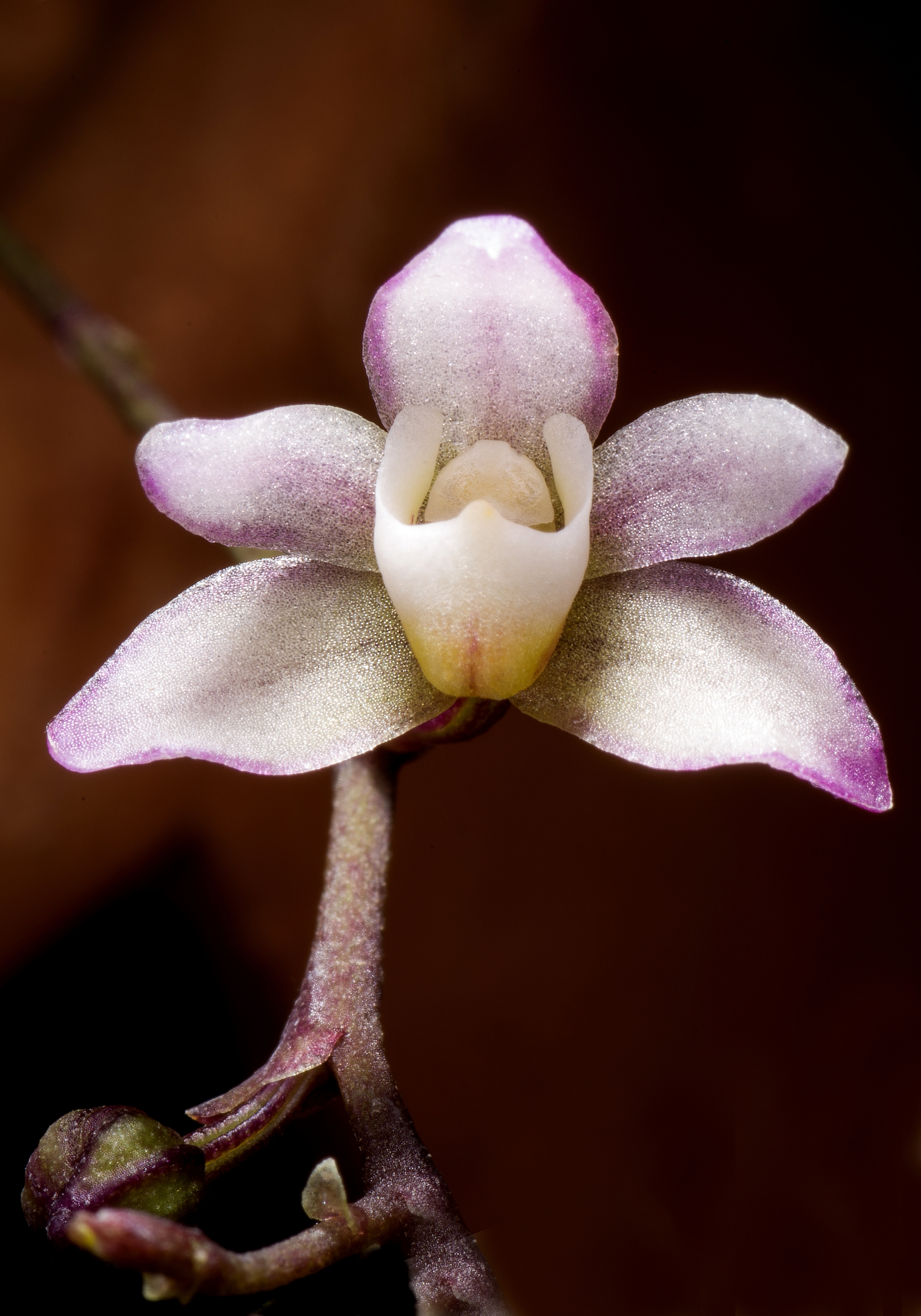 Epiphytic cham. Distribution: Arunachal Pradesh, C. & S. Taiwan (38 TAI 40 EHM) Homotypic Synonyms: Sarcochilus saruwatarii Hayata, Icon. Pl. Formosan. 6: 81 (1916). (* Basionym/Replaced Synonym)